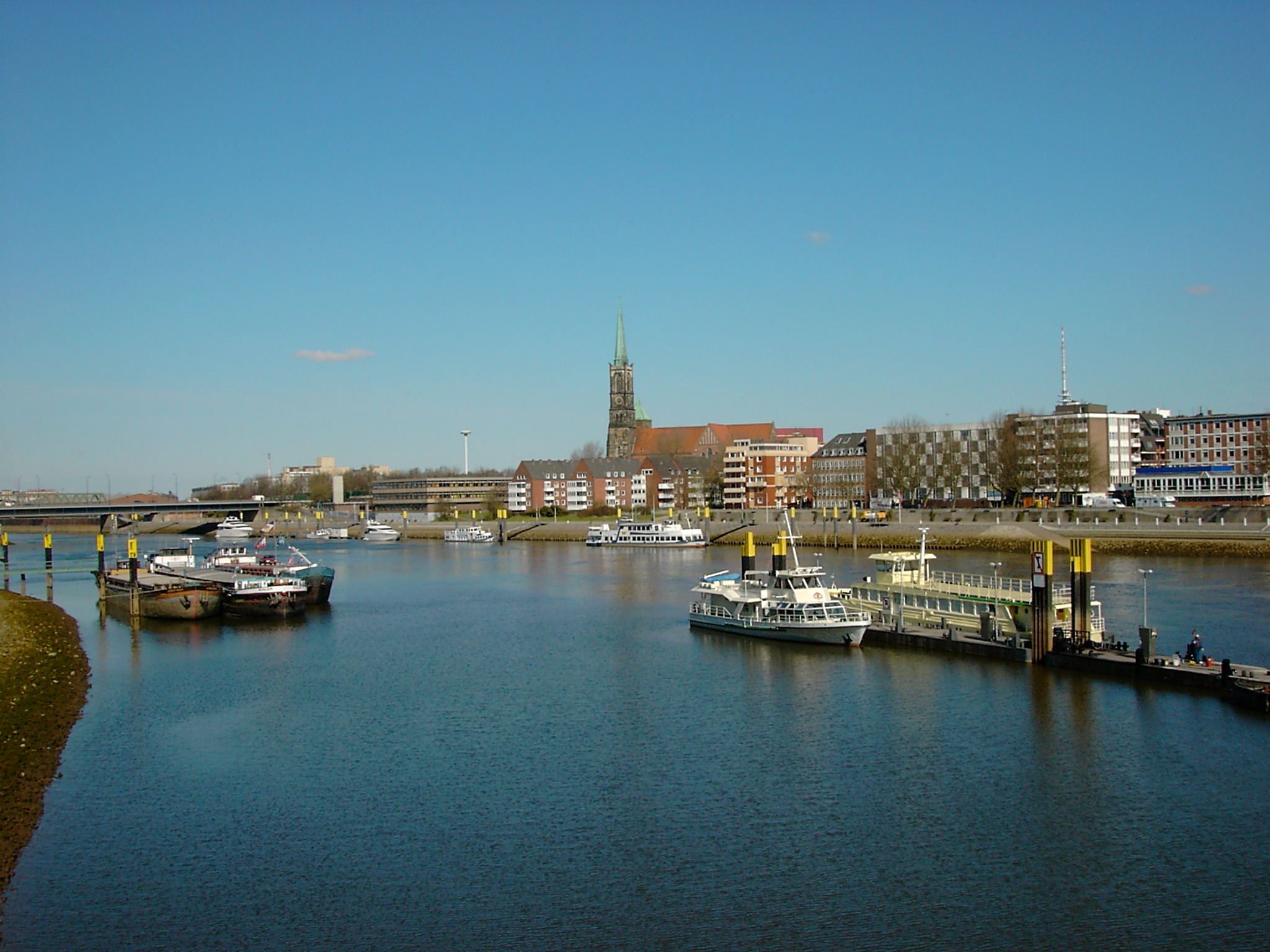 Bremen, view onto the Weser, from the Bürgermeister-Smidt-Brücke downstream.